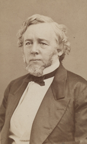 former Congressman Horace Clark of New York.